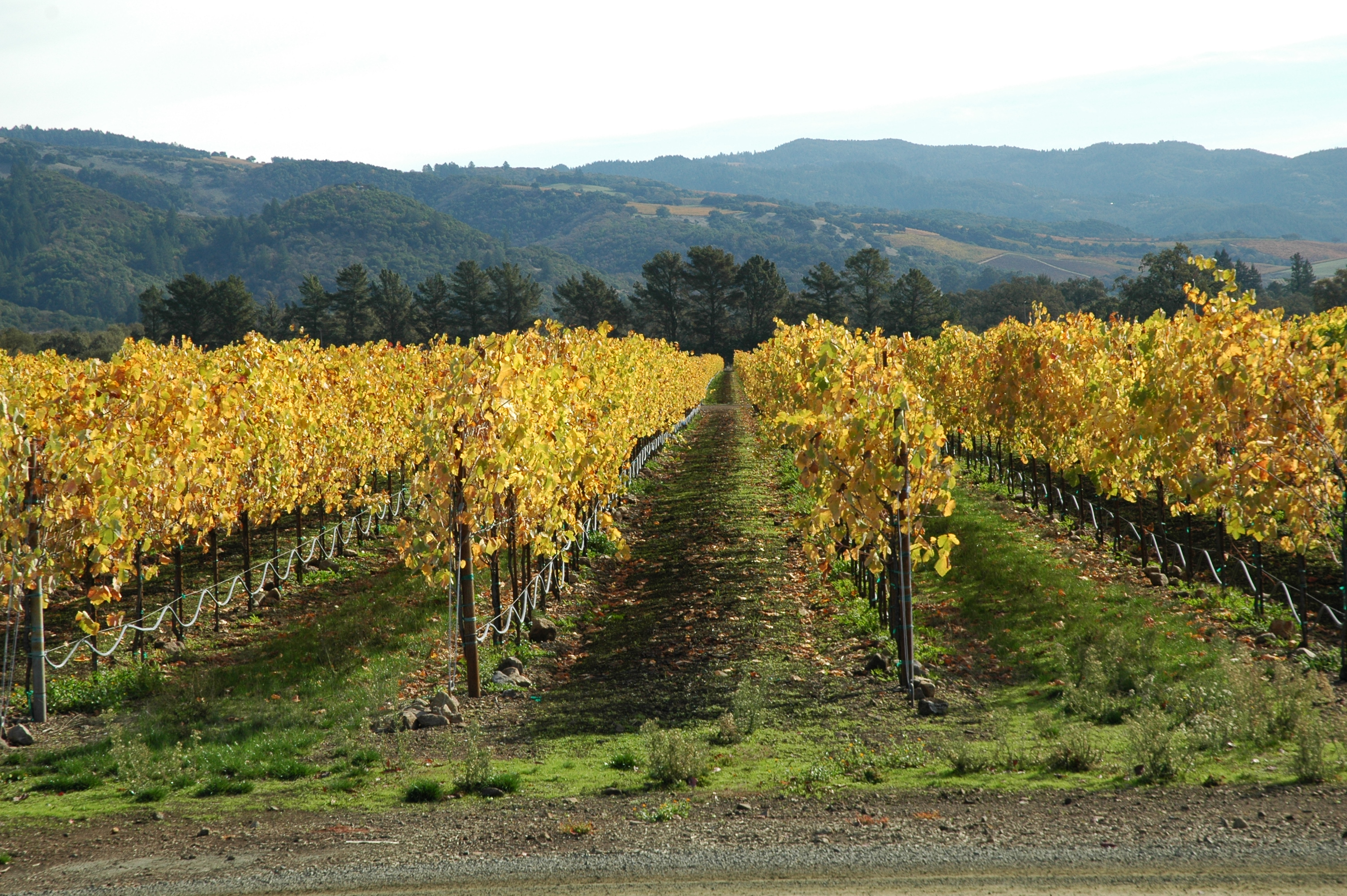 Wine Tasting Photos from our wine tasting trip by our home in Sonoma County, California.